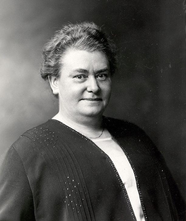 Cropped version of